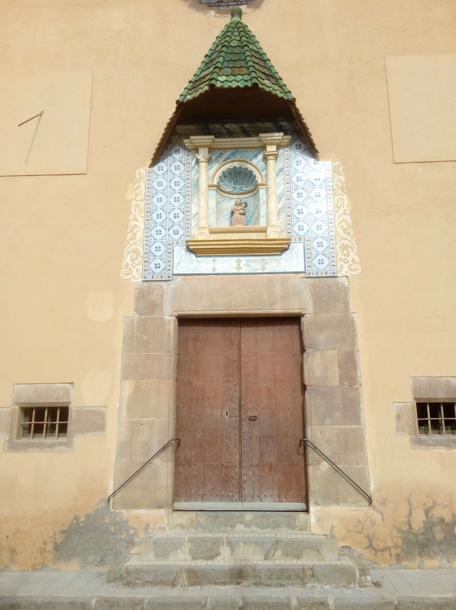 Front of door of the chapel near the town hall, Vallfogona de Ripollès, Spain